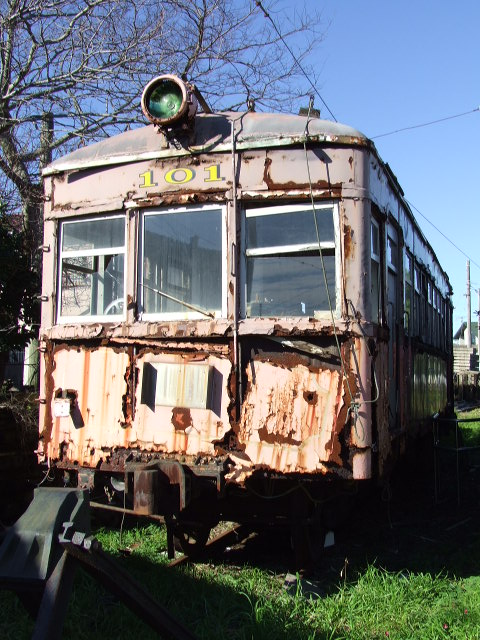 Withdrawn Choshi Electric Railway 100 series EMU car DeHa 101 dumped at Kasagami-Kurohae Station